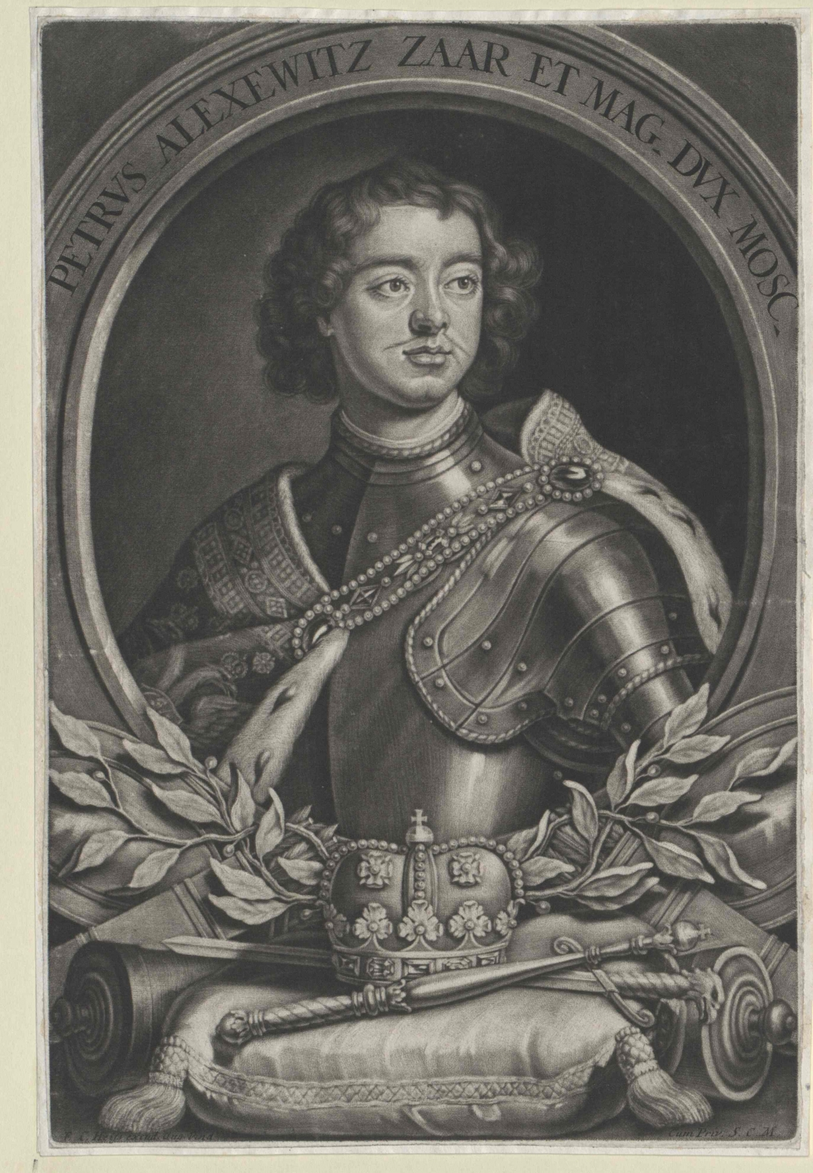 Peter I of Russia